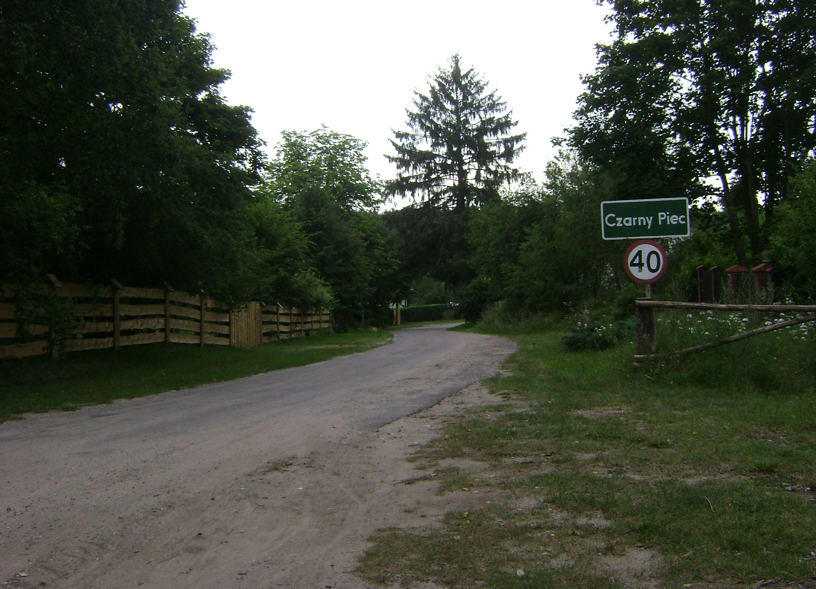 Czarny Piec.